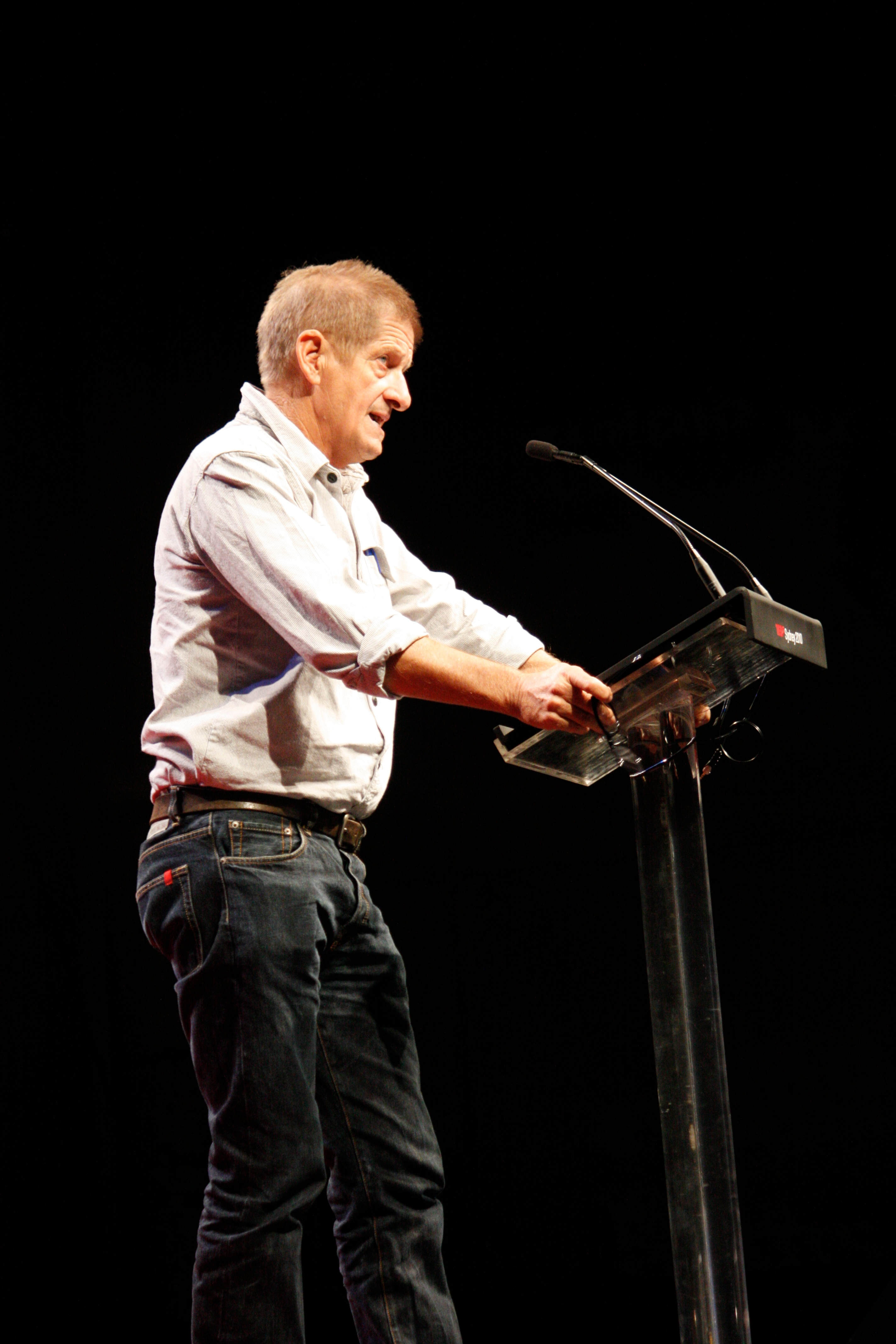 Greig Pickhaver at TEDxSydney 2010 @ Carriageworks